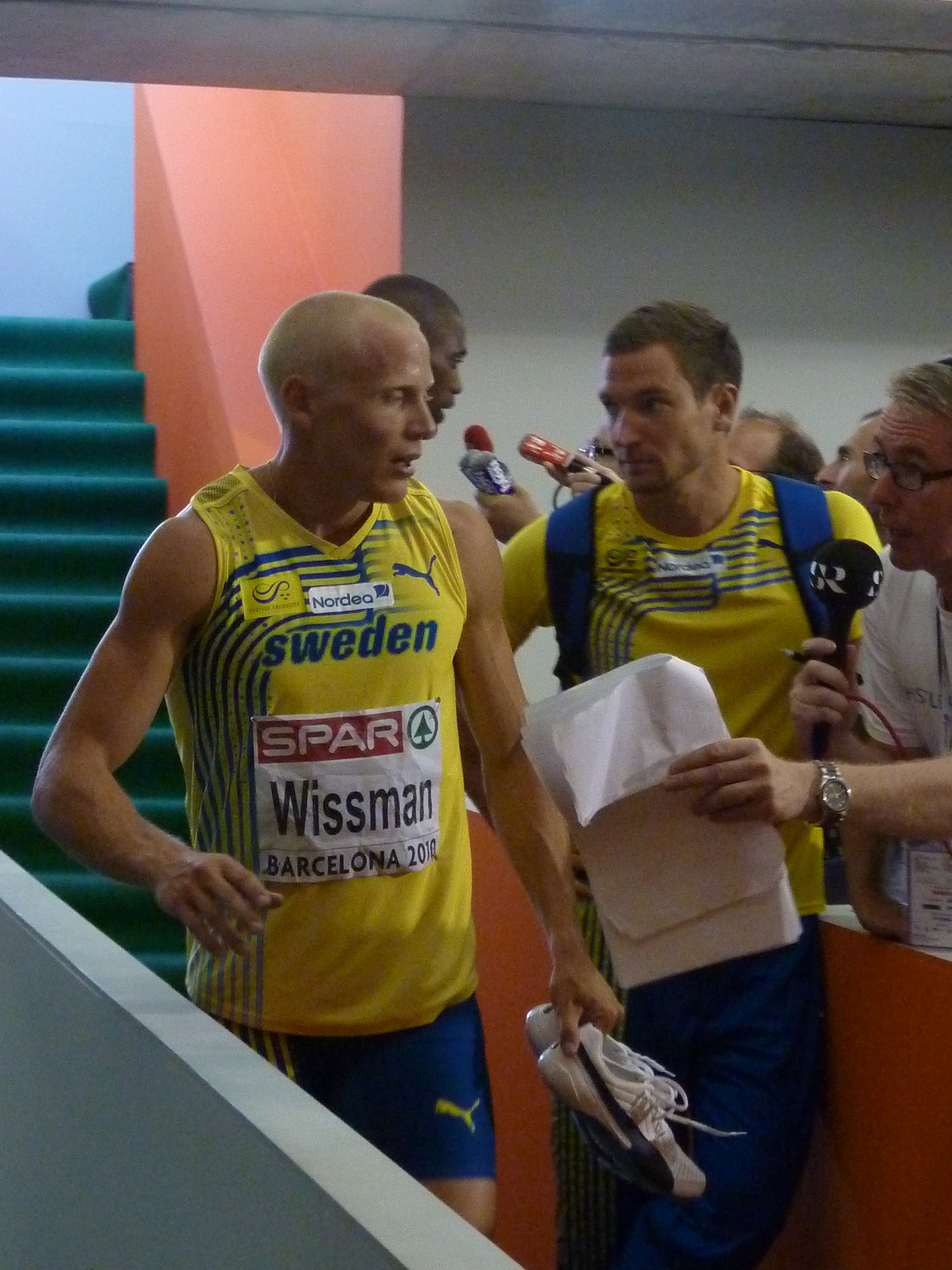 Johan Wissman